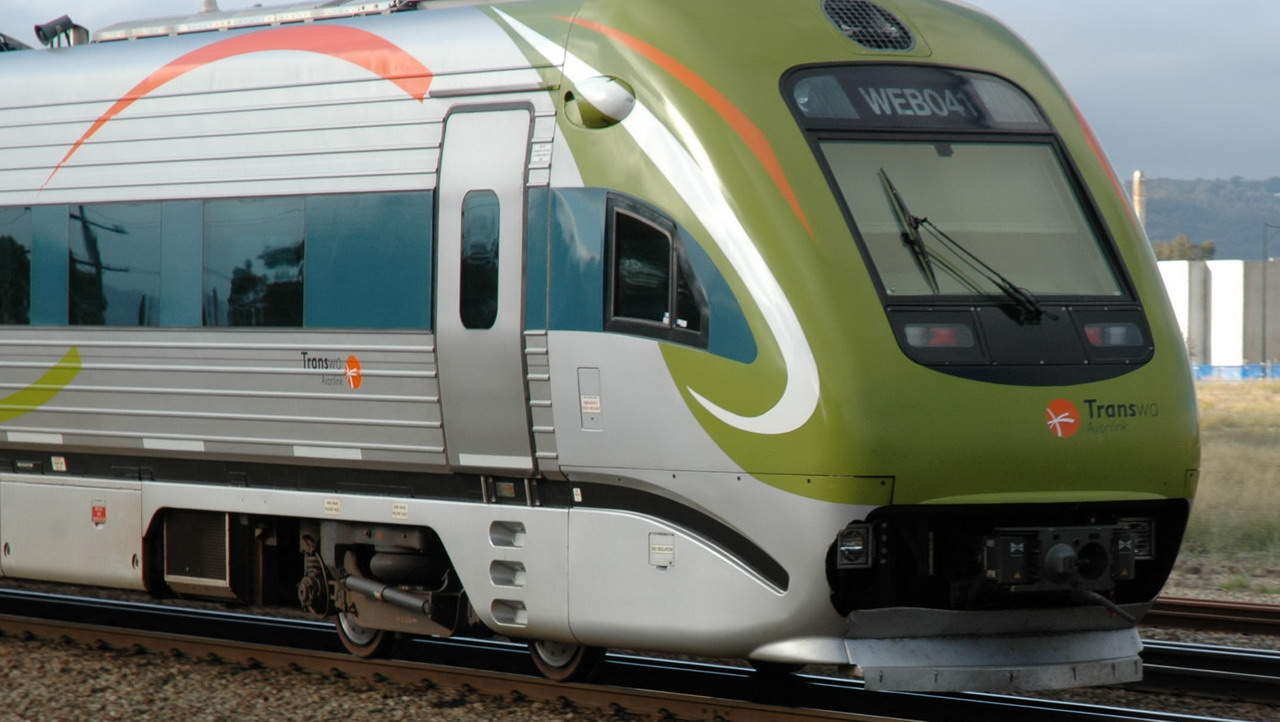 Transwa Avonlink at Midland, Western Australia.